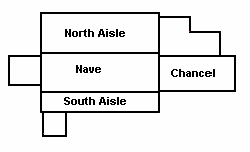 Schematic plan of St Peter's parish church, Prestbury, Cheshire